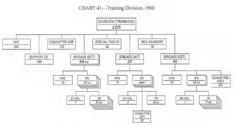 Chart showing the organization of a US Army Reserve training division designed to support mobilization.